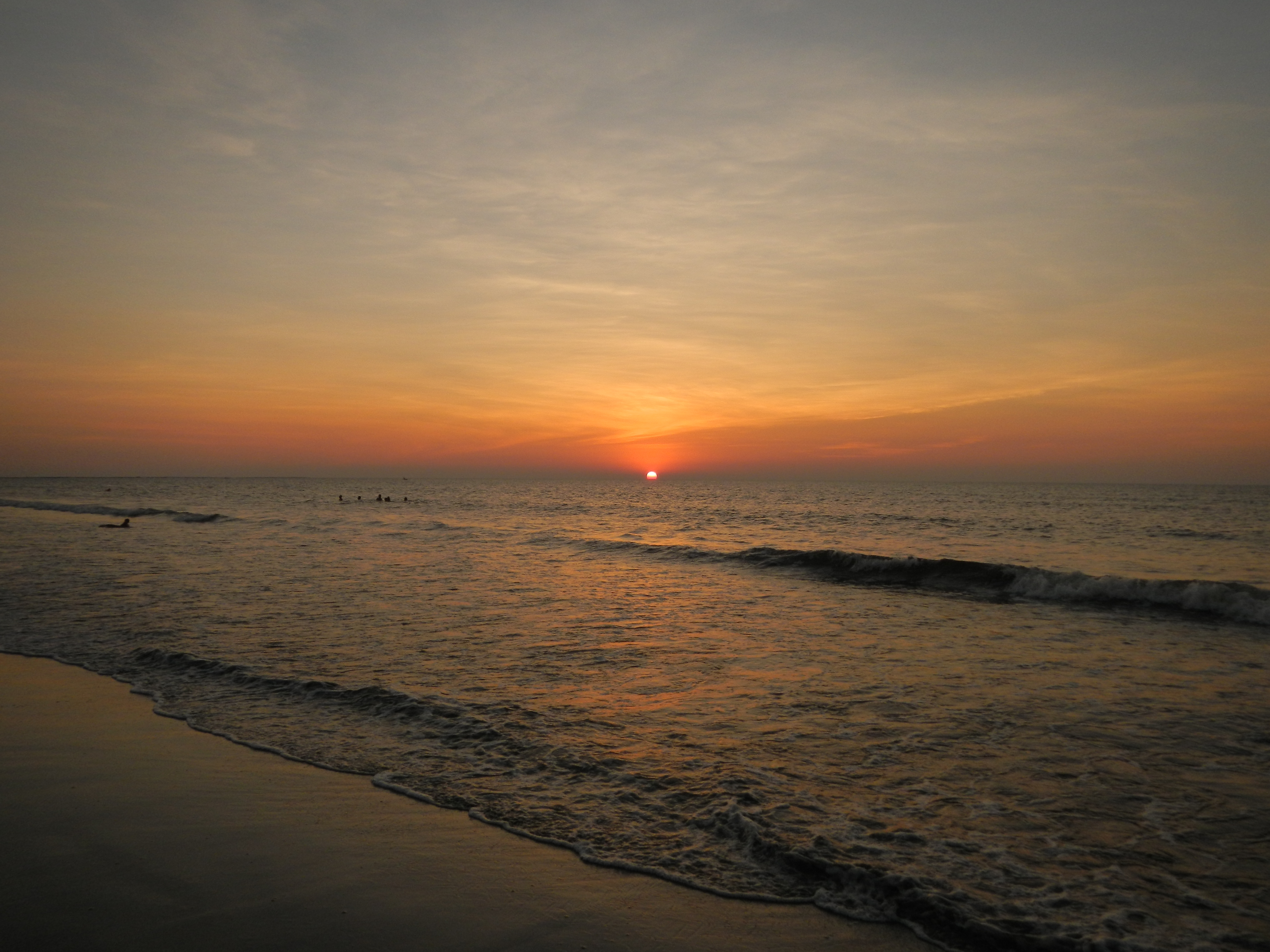 Taberna beach, Bauang, La Union[1][2]